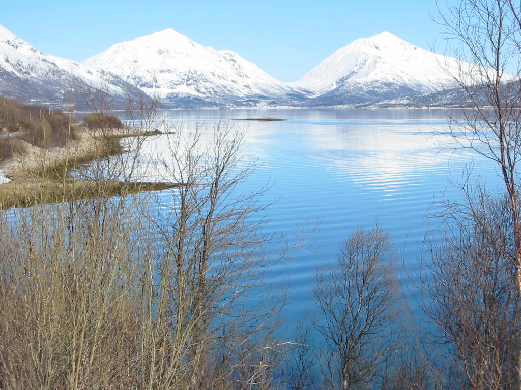 View looking north into the Tjeldsundet strait, Nordland and Troms counties, Norway. The impressive mountains are slightly more than 1000 m (3300 ft) high and are located on the southeastern part of Hinnøya (the largest island along the Norwegian coast). April 9 2006.